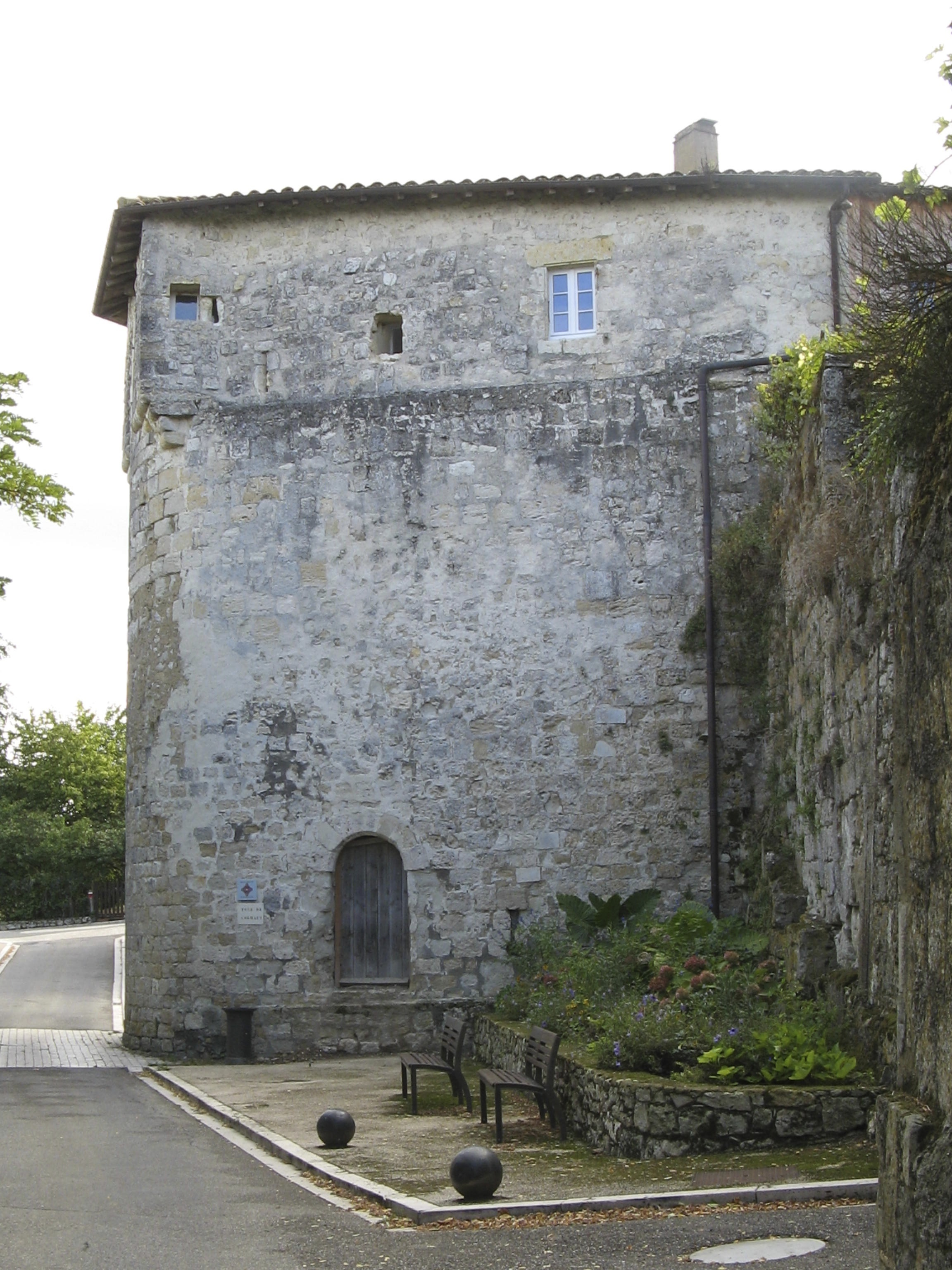 West facing view of Tour du Bourreau, in Lectoure, Gers. .